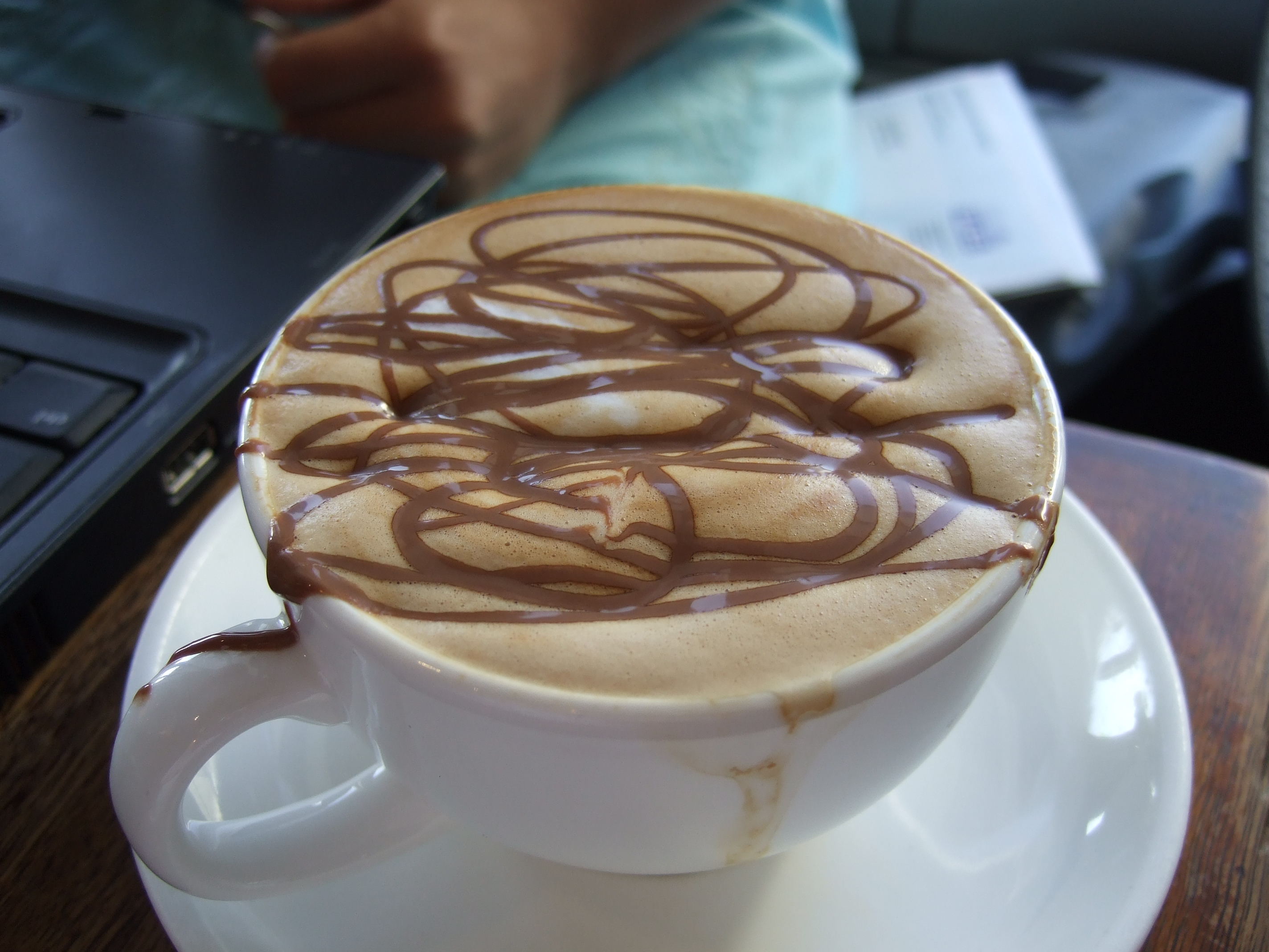 Cappuccino. They put liquid choccy on top instead of cocoa powder. Yum.